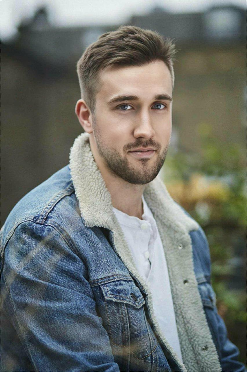 Brown photographed in 2017